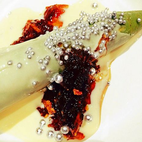 Traditionally made india ice cream - kulfi. Here served with sweetened rose petals called gulkand and rabri. edited using an app to enhance picture colors.